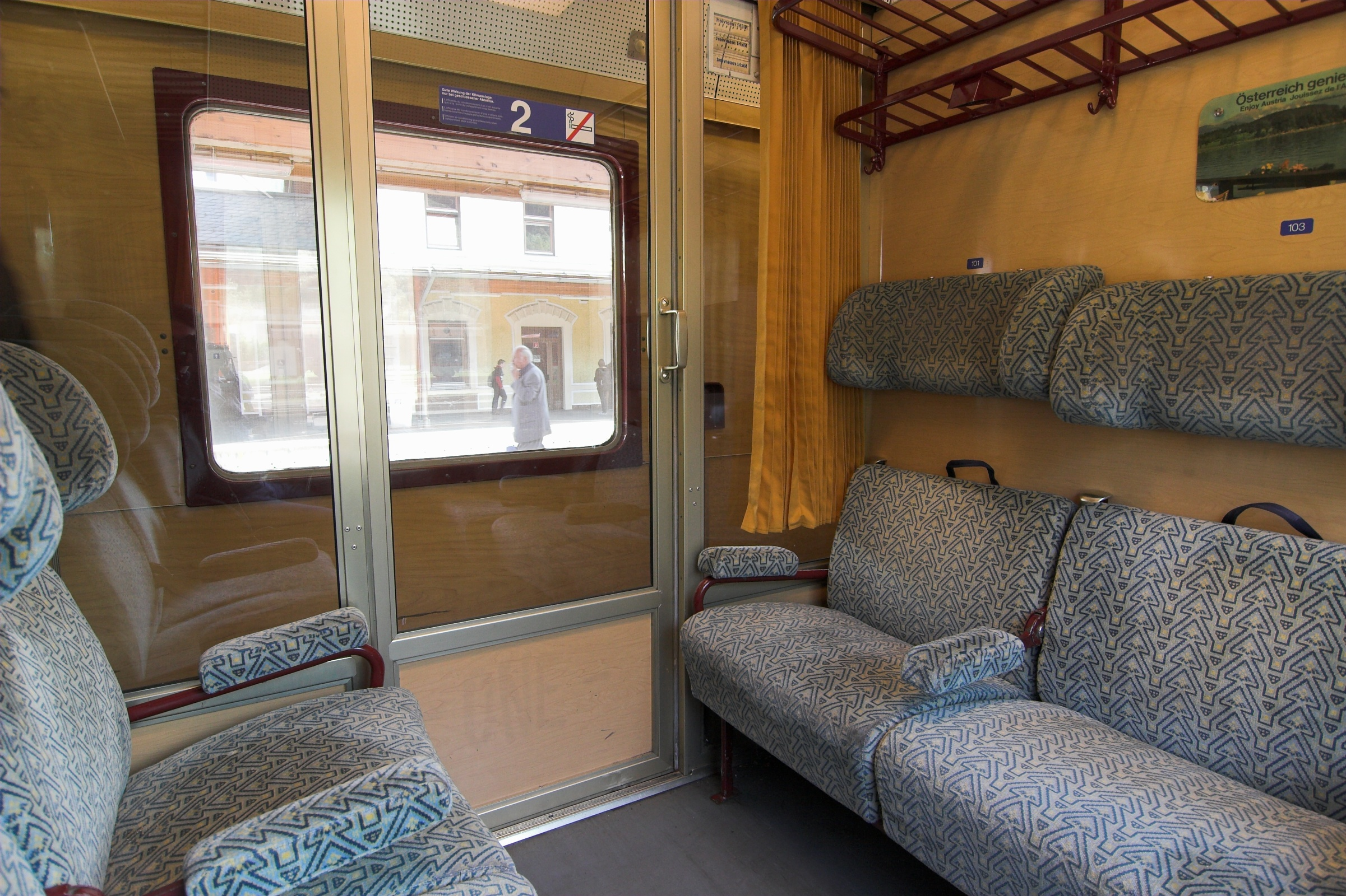 2nd class compartment of a compartment carriage of an ÖBB 4010 EMU.